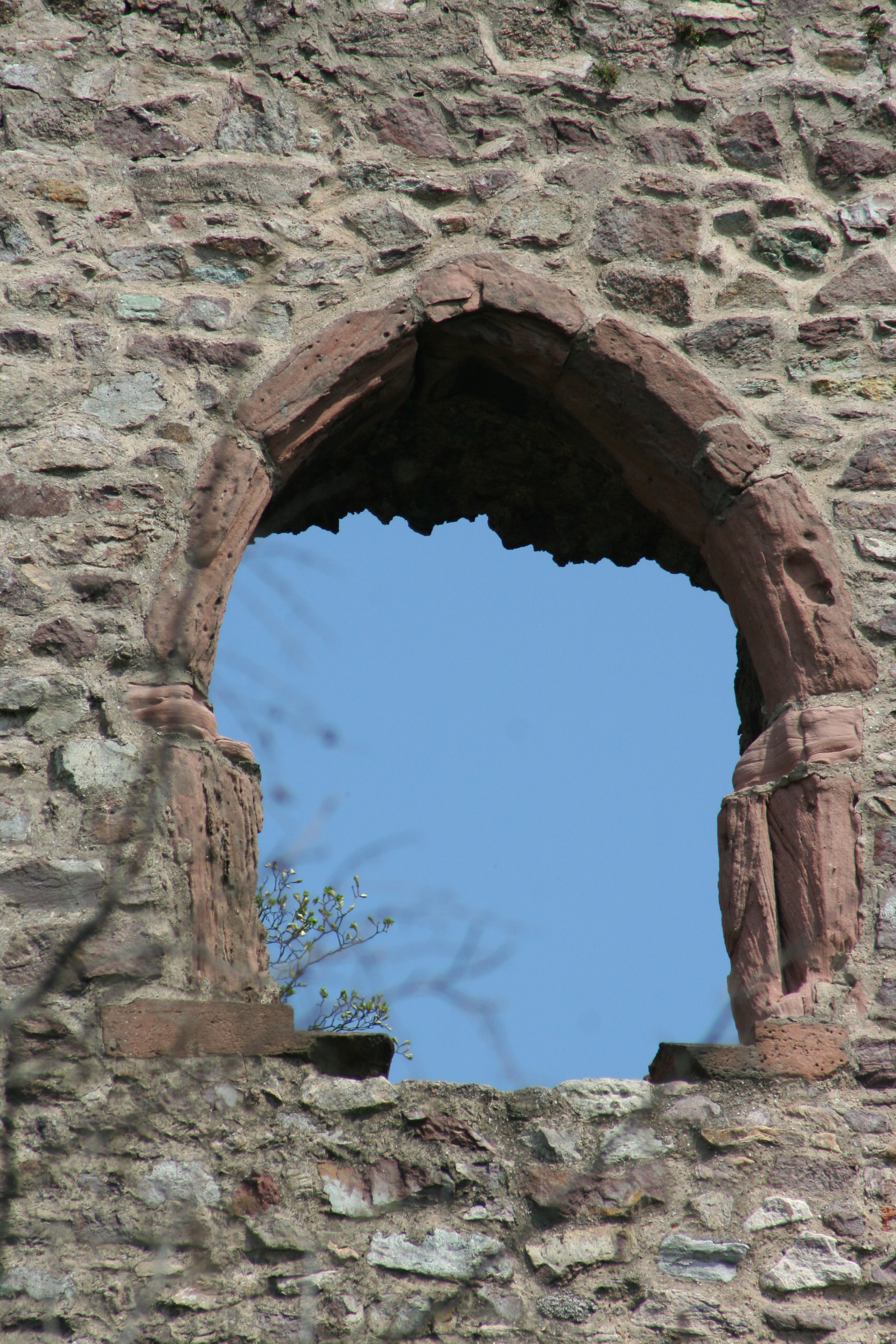 Castle Strahlenburg window detail, Schriesheim, Germany